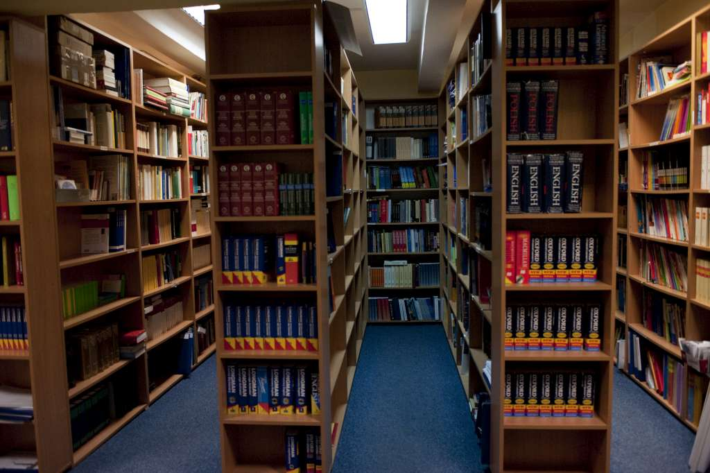 The WSF library